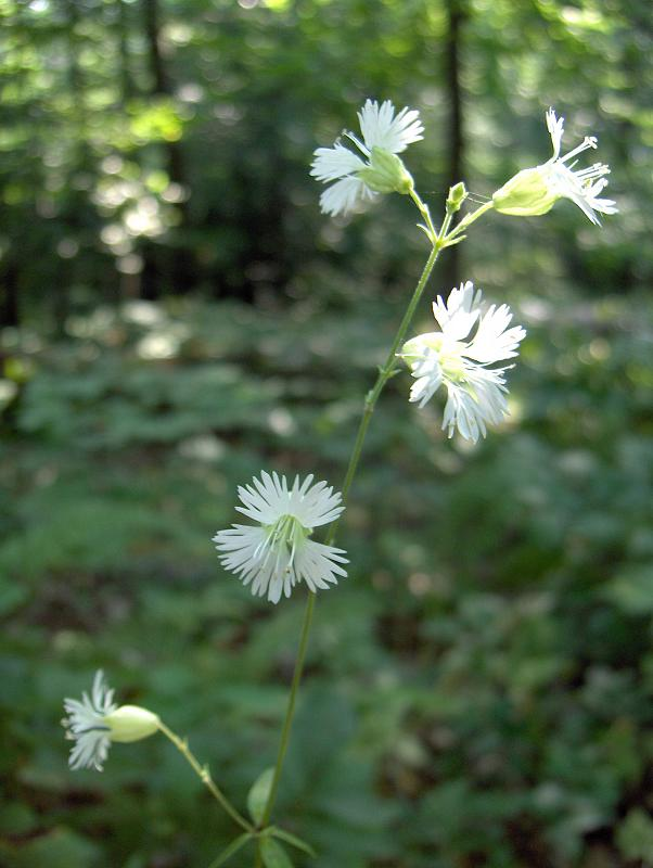 Starry Campion flowers